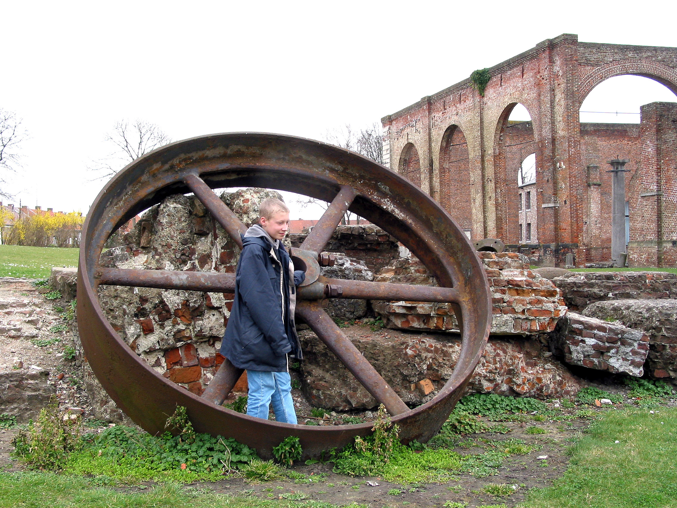 Hornu (Belgium), young boy visiting the ruins of the "Grand-Hornu" industrial complex (built by Henri De Gorge between 1810 and 1830, folowing the drawings of Bruno Renard).